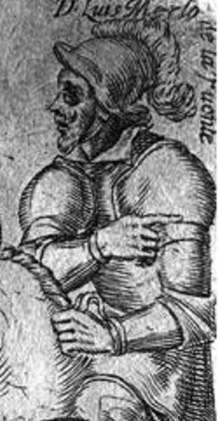 Luis Merlo de la Fuente Ruiz de Beteta was a Spanish colonial official who briefly served as the Royal Governor of Chile, in 1610–11.